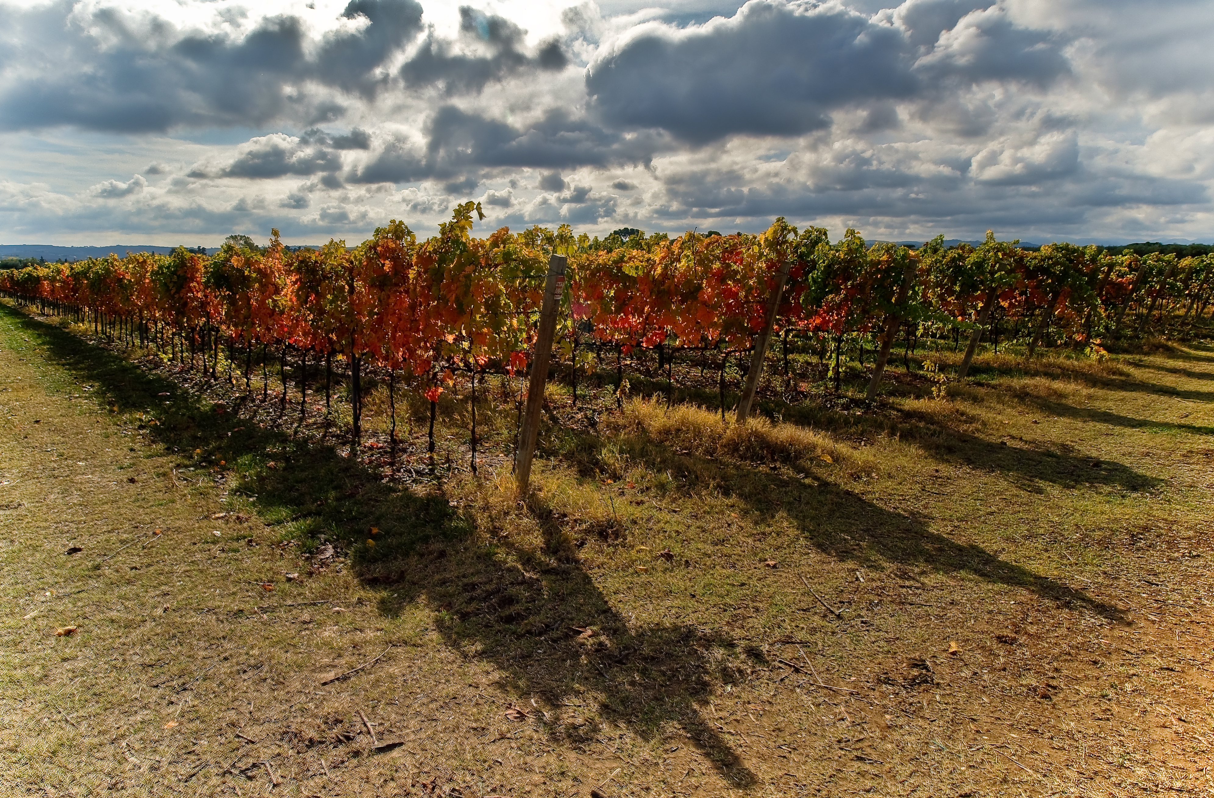 Verdicchio grape vines growing in the Marche region of Italy